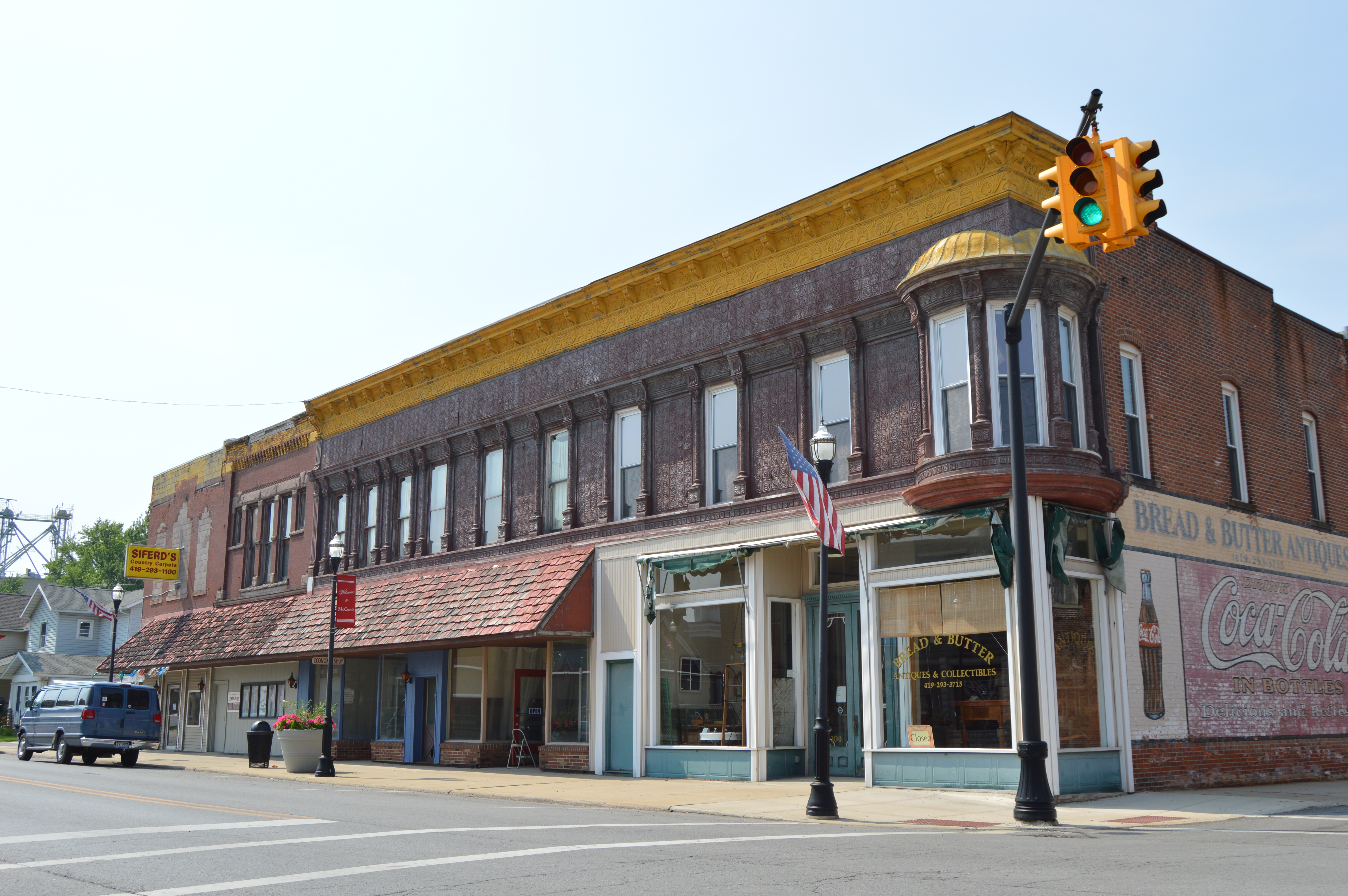 Buildings on Main Street (State Route 613) in McComb, Ohio, United States. Photo looks northwest from the Todd Street intersection.